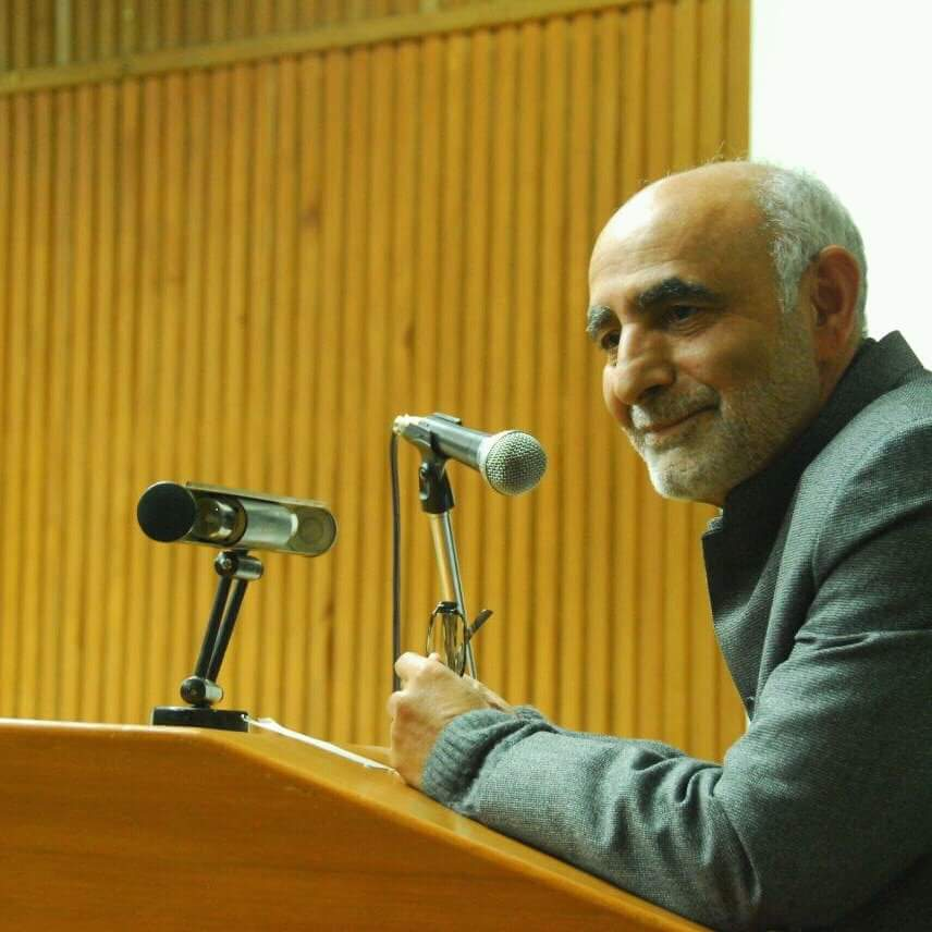 JUSTICE BILAL NAZKI